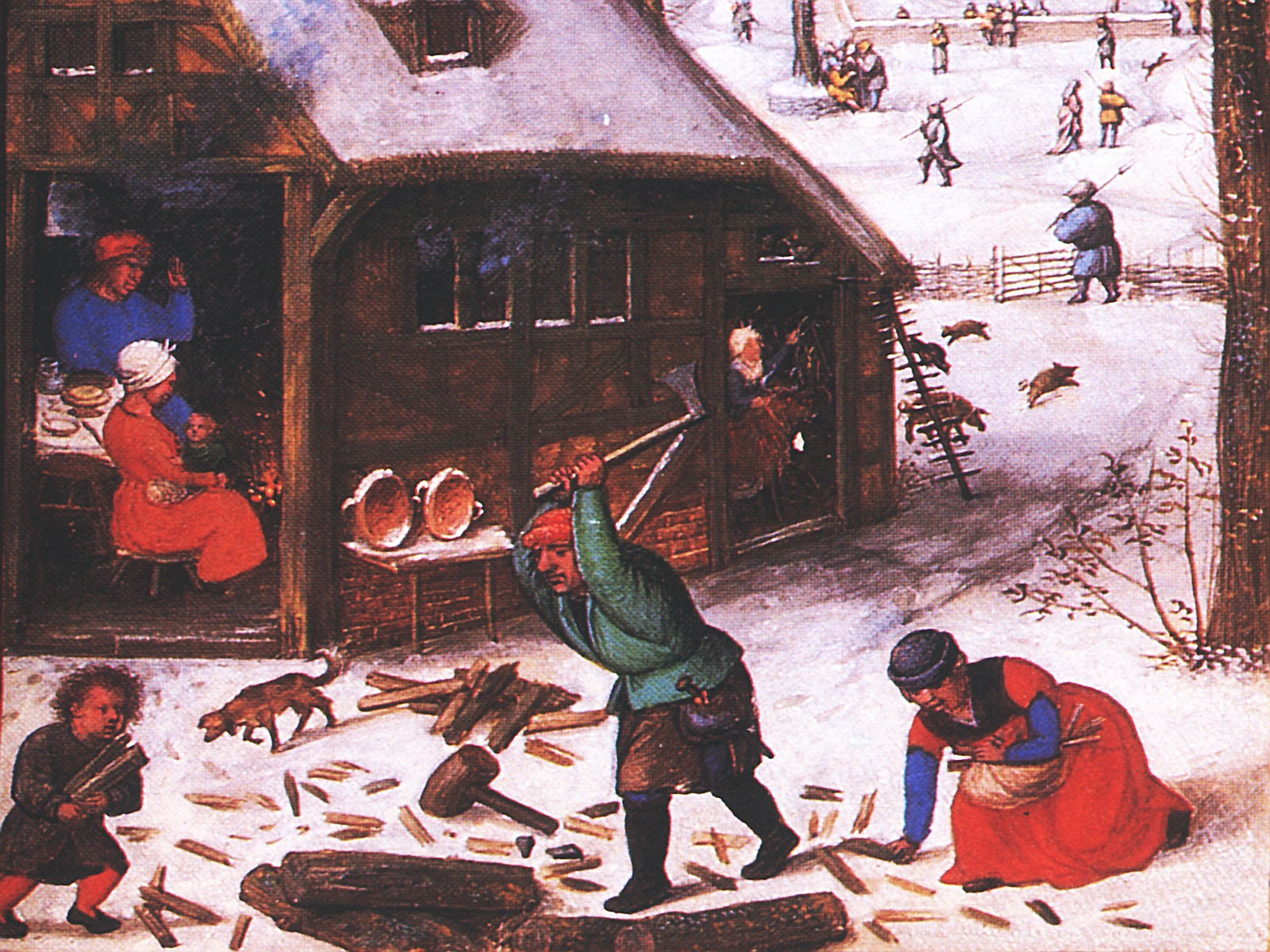 Labors of the Months: January, from a Flemish Book of Hours (Bruges)